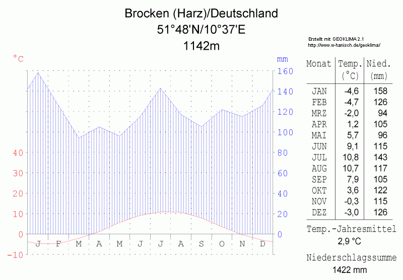 climate chart in the format by Walther and Lieth, metric, °Celsisus and millimeters, made with Geoklima 2.1